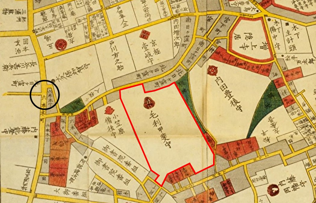 Môri residence at Edo